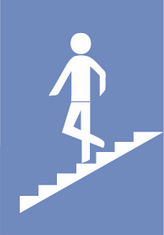 Diagram of road signs of Luxembourg